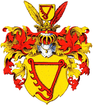 Baron und Graf Kettler. Coat of Arms of the Kettlers